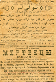 Poster of "The Dead" by Mammadquluzade